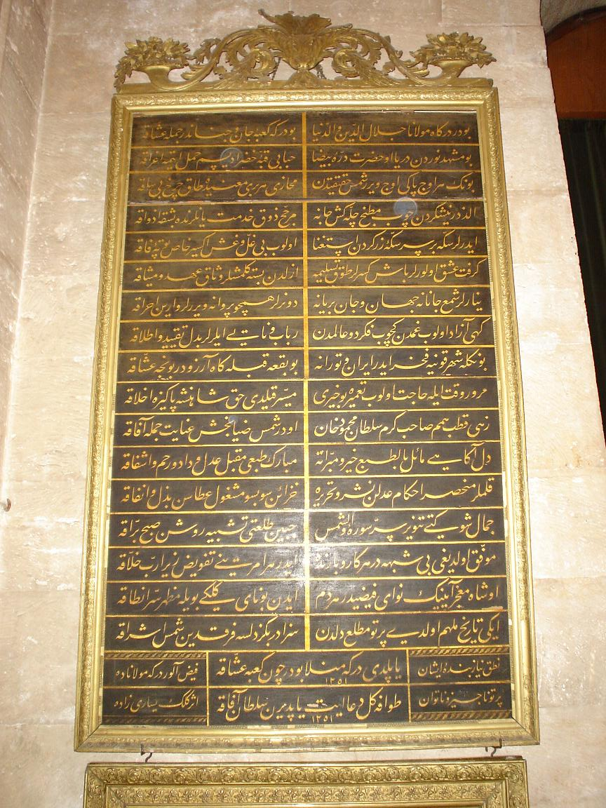 A poem about Rumi in Ottoman Turkish language. In the Mevlâna Museum — Konya, Central Anatolia, Turkey.